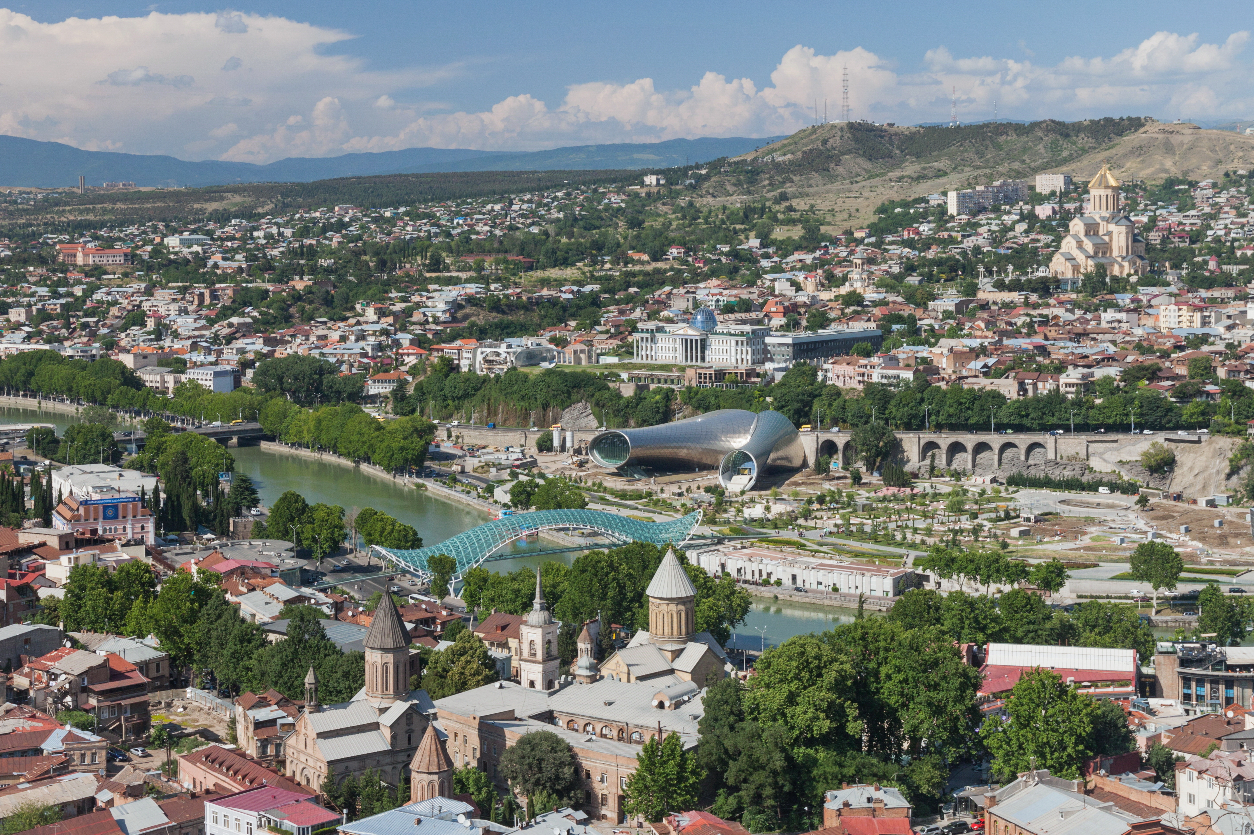 The views from the Narikala fortress. Tbilisi, Georgia.